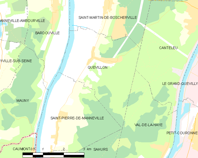 Map of French municipality Quevillon